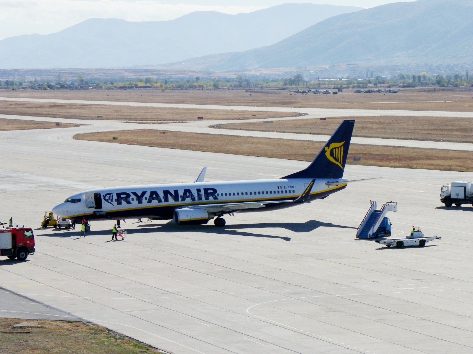 Ryanair - flight London Stansted-Plovdiv.Ground handling.